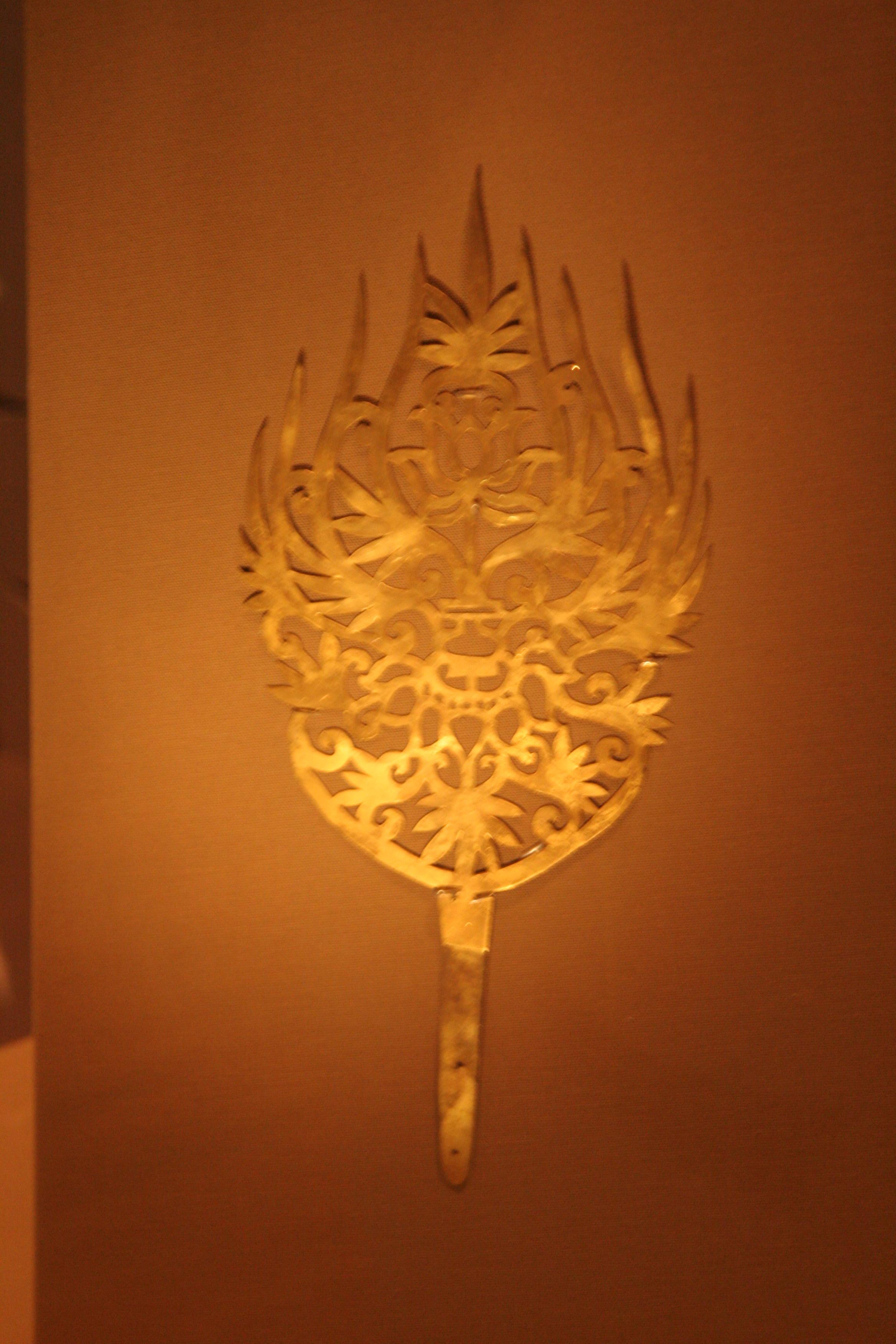 A close up of one of the two gold diadem ornaments found in King Muryeong's tomb which were for the queen. They were worn on a silk cap afixed to the sides. The pair are also designated as a National Treasure of Korea.